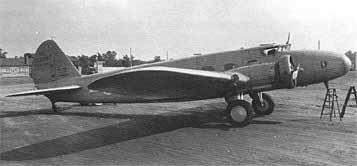 Early version of Boeing 247 10-passenger twin-engine transport